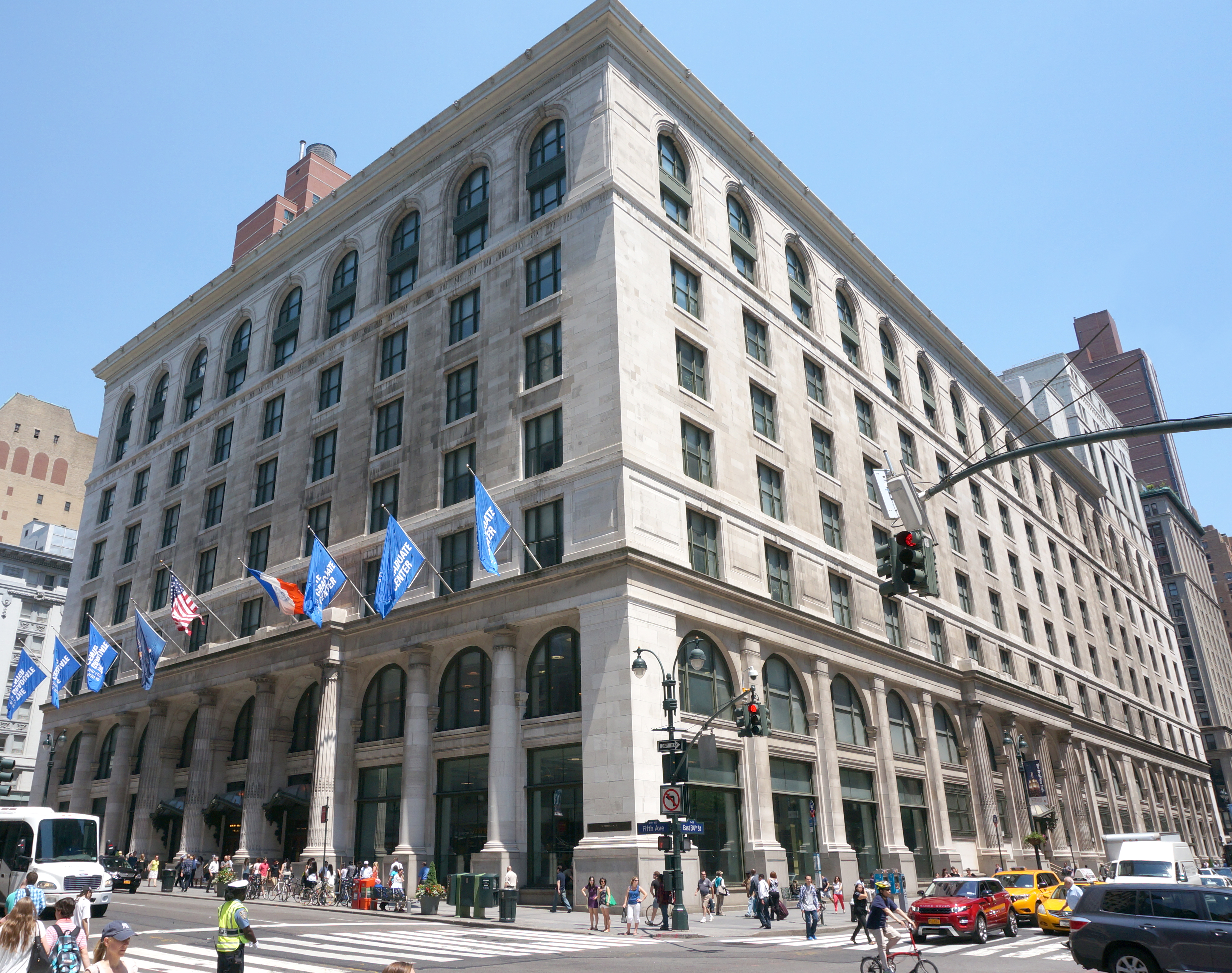 The Graduate Center building located at 365 Fifth Avenue, between 34th and 35th Streets.